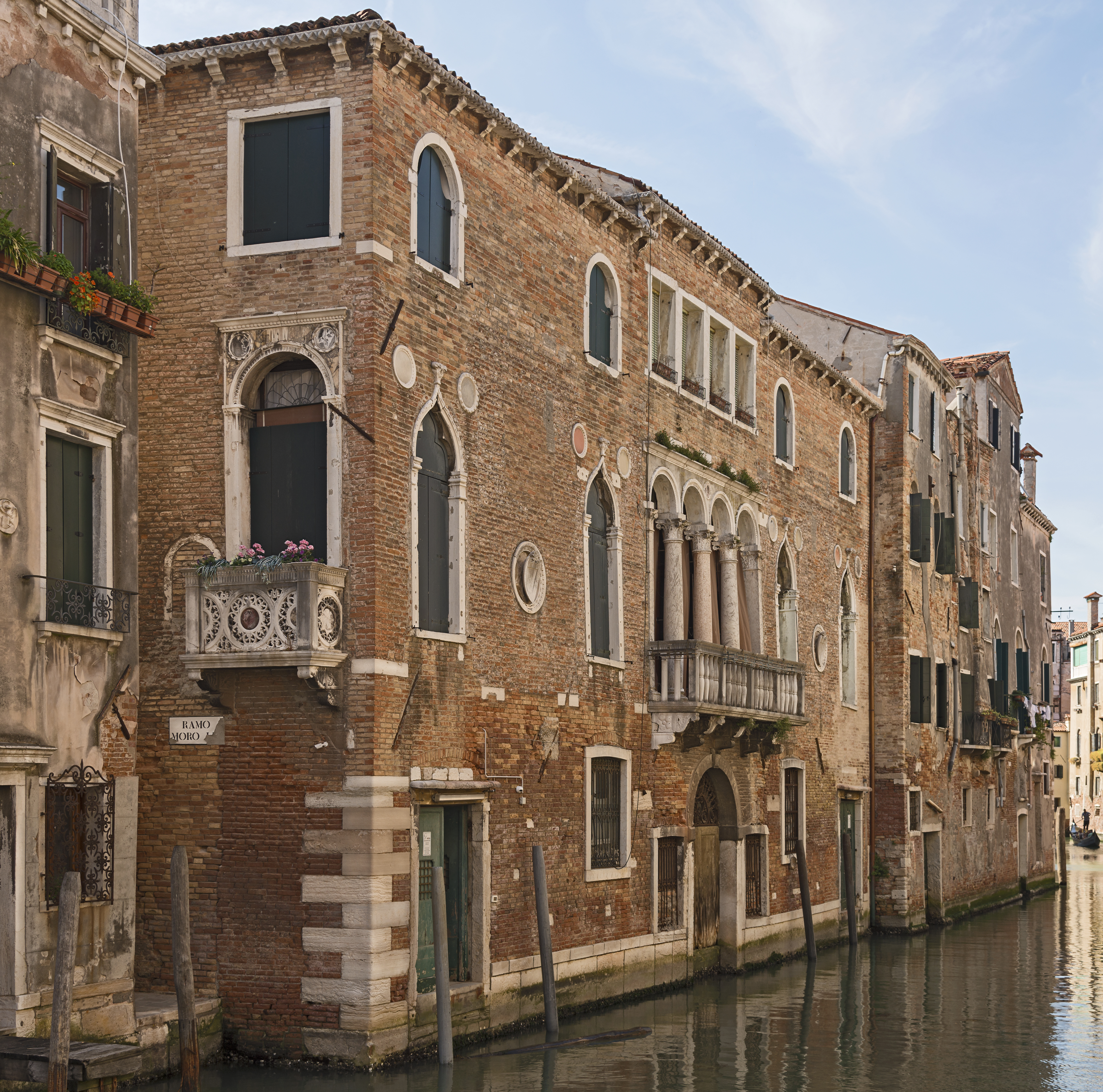 Palazzo Morolin Michiel Olivo in Venice. Facade on Rio di San Polo.